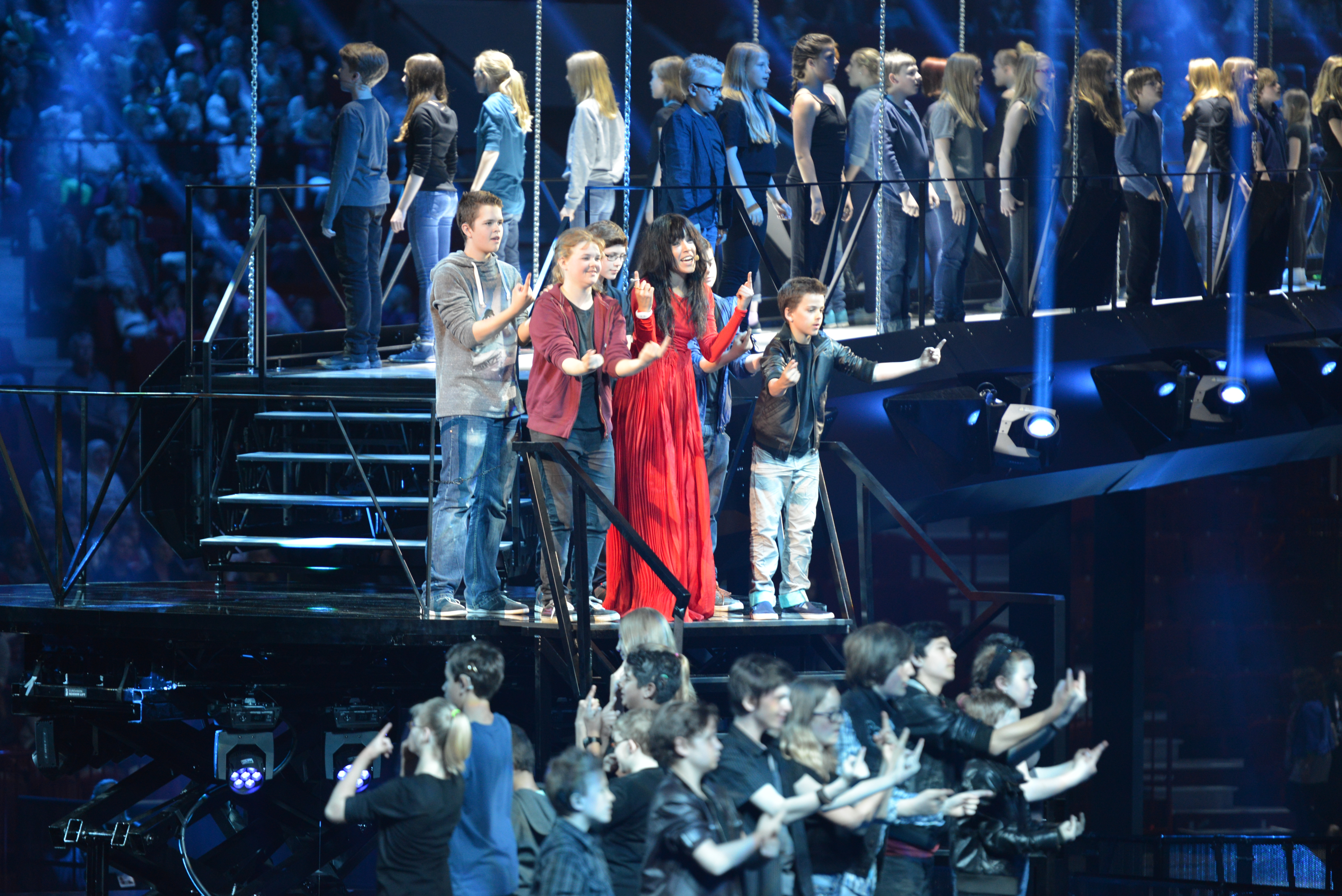 The opening act for the Eurovision Song Contest 2013 first semi final.